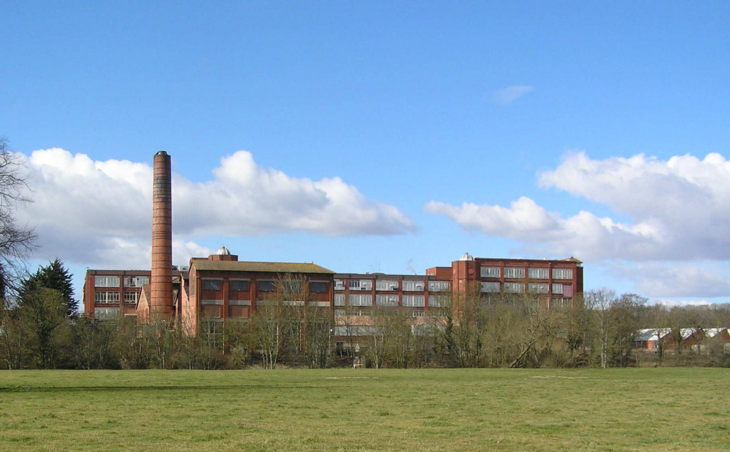 Cadbury’s Chocolate Factory Once this was the Fry chocolate factory. This has now been taken over by Kraft Foods, and all production to cease. They are building a new factory to replace this in Poland.